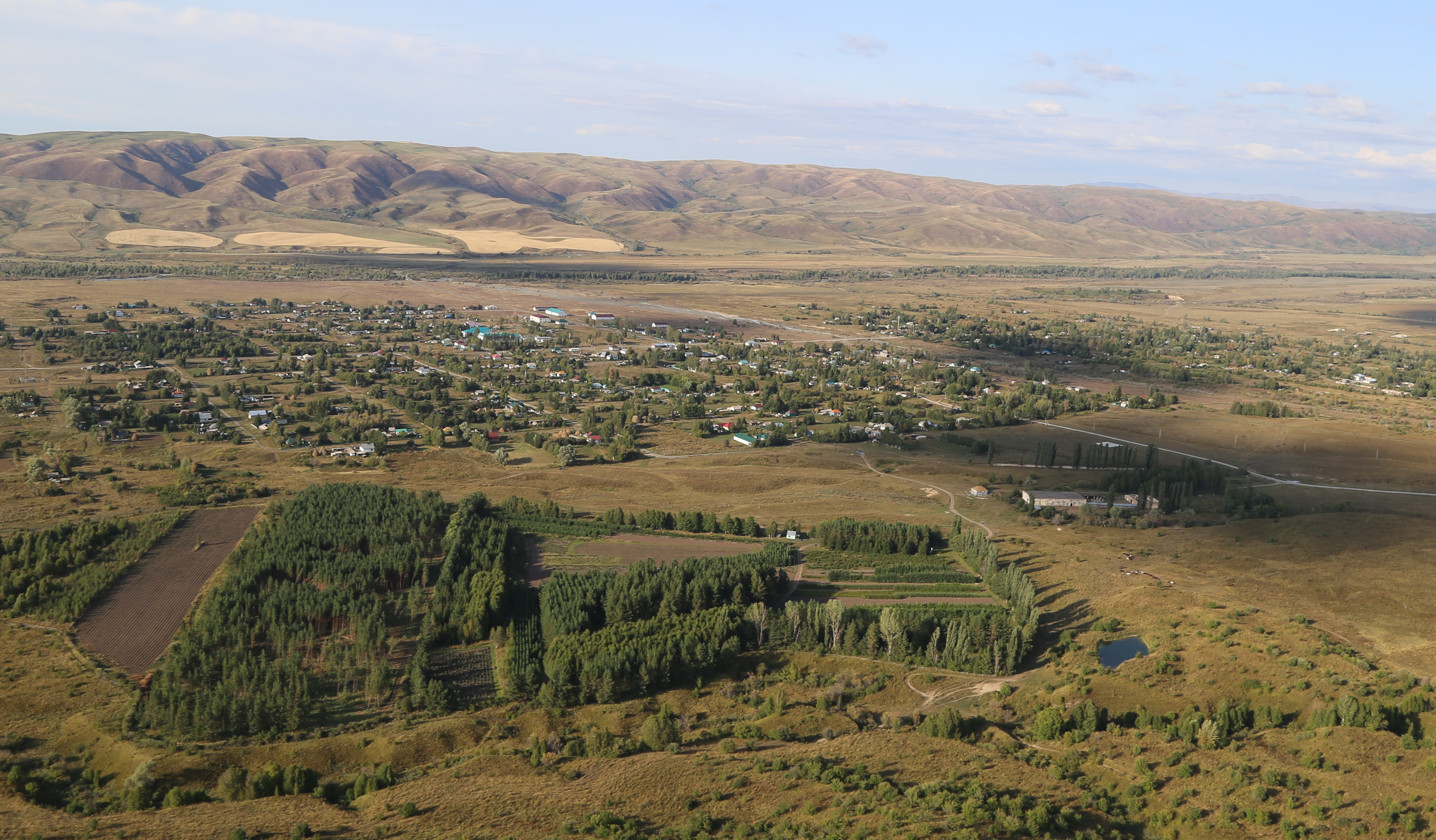 Lepsi